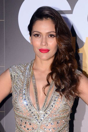 Waluscha De Sousa graces GQ Style Awards, Mar 31, 2018